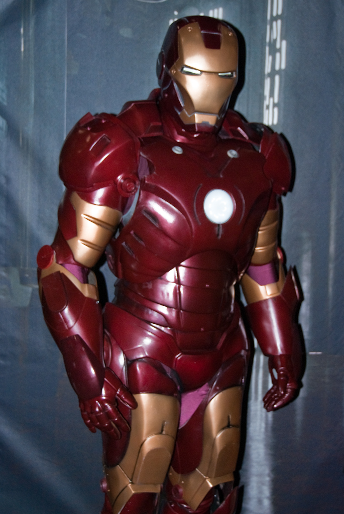 Cosplay at London MCM Expo October 2009.